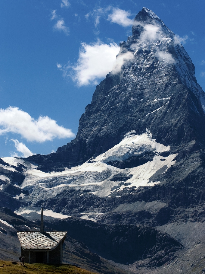 Matterhorn east face